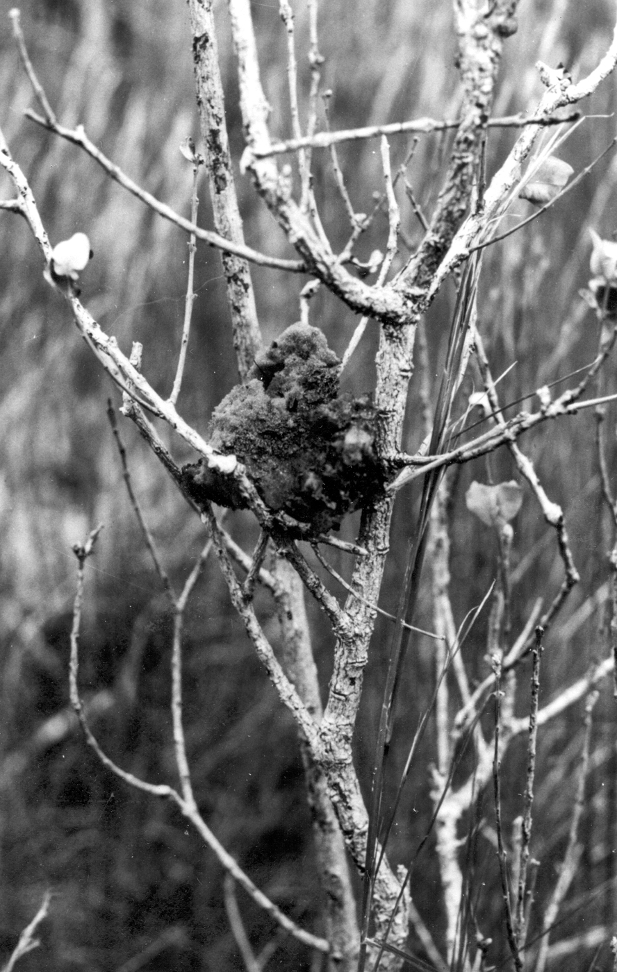 Reticulite Description: Hawaii Volcanoes National Park. 1969-1971 Mauna Ulu eruption of Kilauea Volcano. Piece of reticulite 15 centimeters in diameter caught in an ohia tree several kilometers downwind from the Mauna Ulu vent area. Reticulite was erupted on September 6, 1969, during a period of high fountaining. Figure 26, U.S. Geological Survey Professional paper 1056